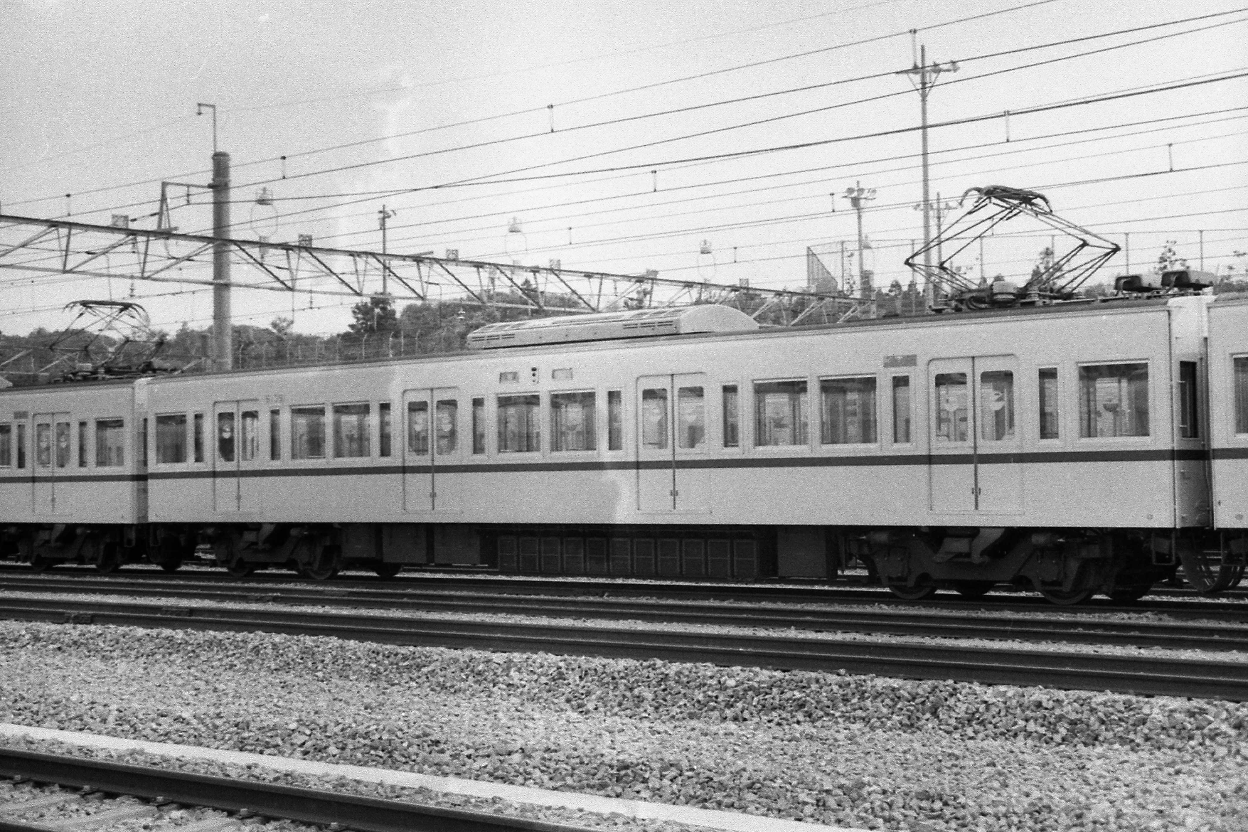 Keio 6139 at Wakabadai